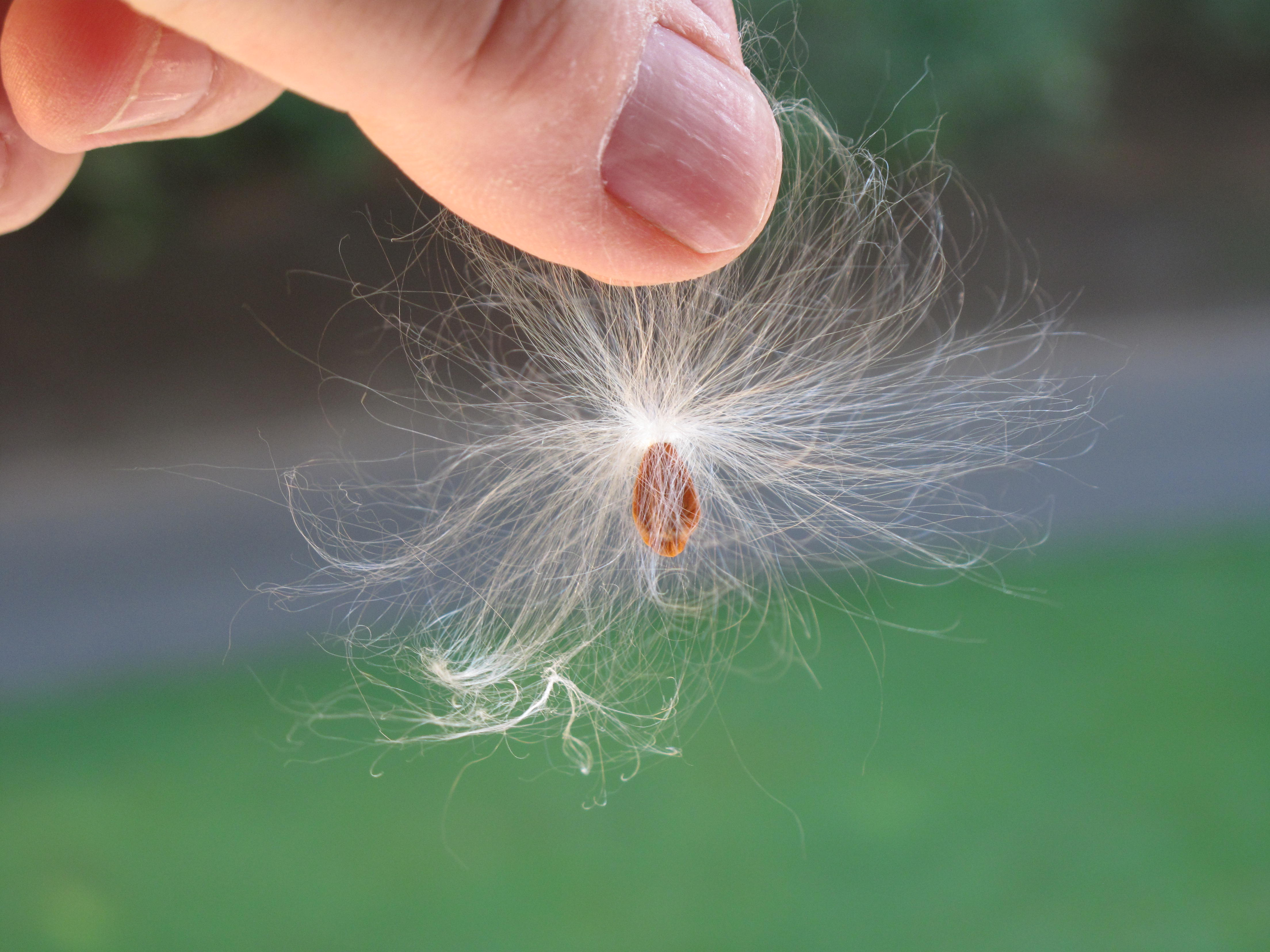 Seeds of Asclepias syriaca ready to fly by the wind.